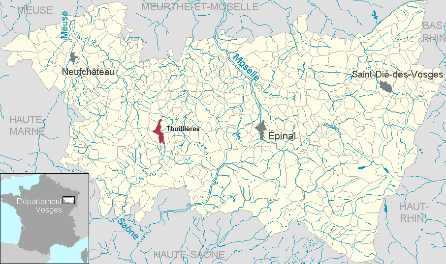 Thuillières in the department of Vosges, Lorraine, France